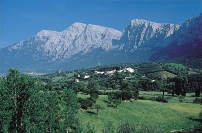 Guthiddai Valley, Supramonte, Sardinia